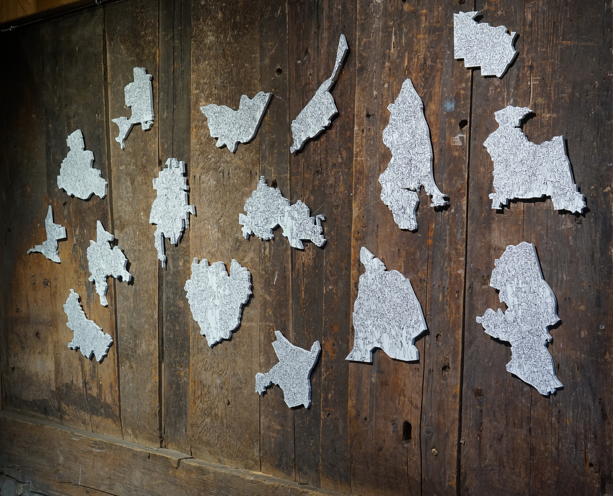 Newcastels of the world. Connexions Insolites, Installation, 2017, acrylic on wood.